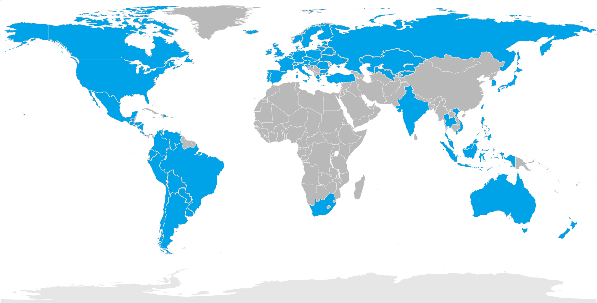 Countries, where Google Play Books is available. Available Not available